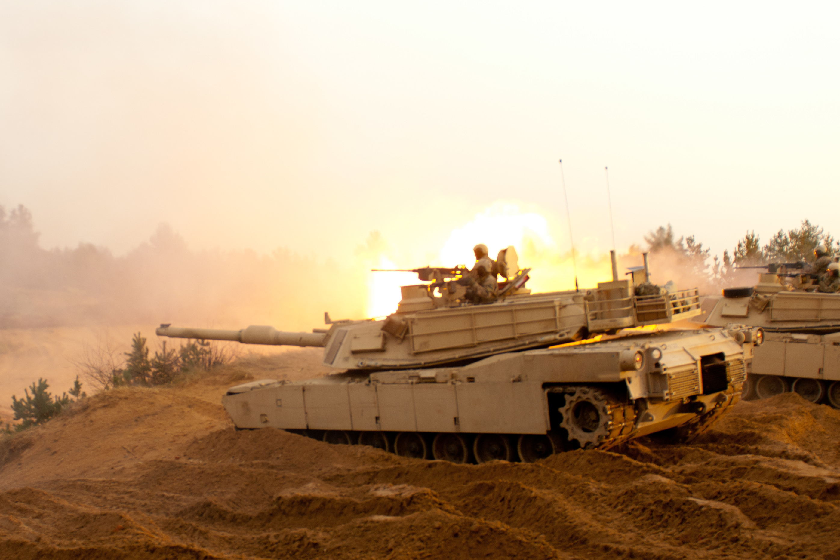 Soldiers from 2nd Battalion, 8th Cavalry Regiment, 1st Brigade Combat Team, 1st Cavalry Division fired shots from M1A1 Abrams tanks at Adazi Training Area, Latvia, Nov. 6, 2014. They fired one shot for each of the Baltic states, and then a culminating shot with all three tanks firing together as a symbol of solidarity and partnership with the NATO countries. The Soldiers and their tanks are part of the U.S. Army Europe-led Operation Atlantic Resolve land force assurance training taking place across Estonia, Latvia, Lithuania and Poland to enhance multinational interoperability, strengthen relationships among allied militaries, contribute to regional stability and demonstrate U.S. commitment to NATO. (U.S. Army photo by Sgt. Angela Parady.)